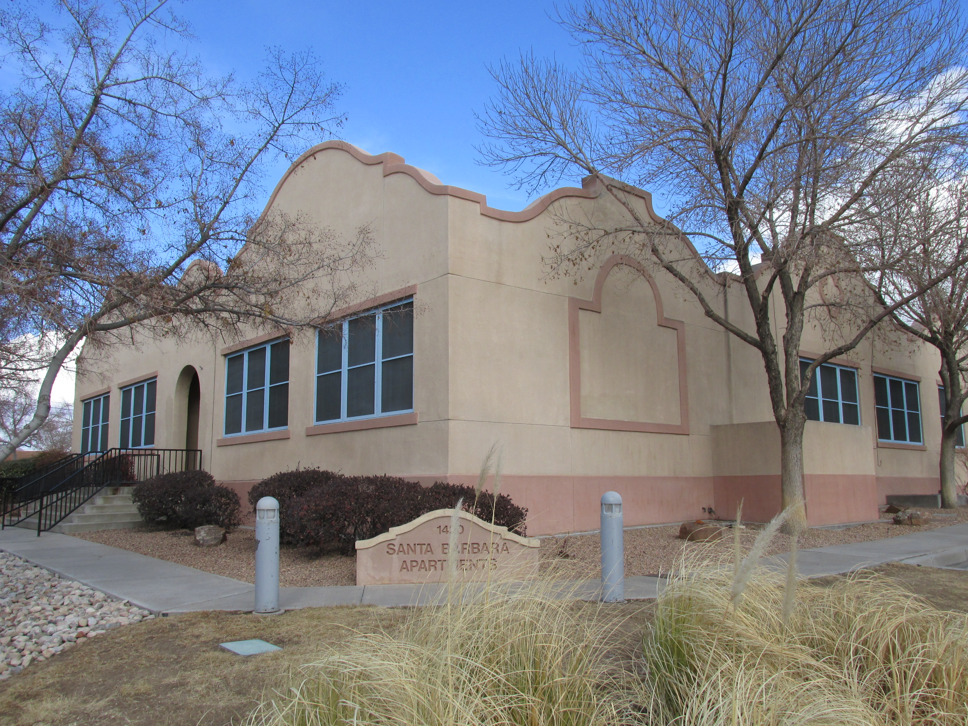 1420 Edith Boulevard NE, Albuquerque New Mexico